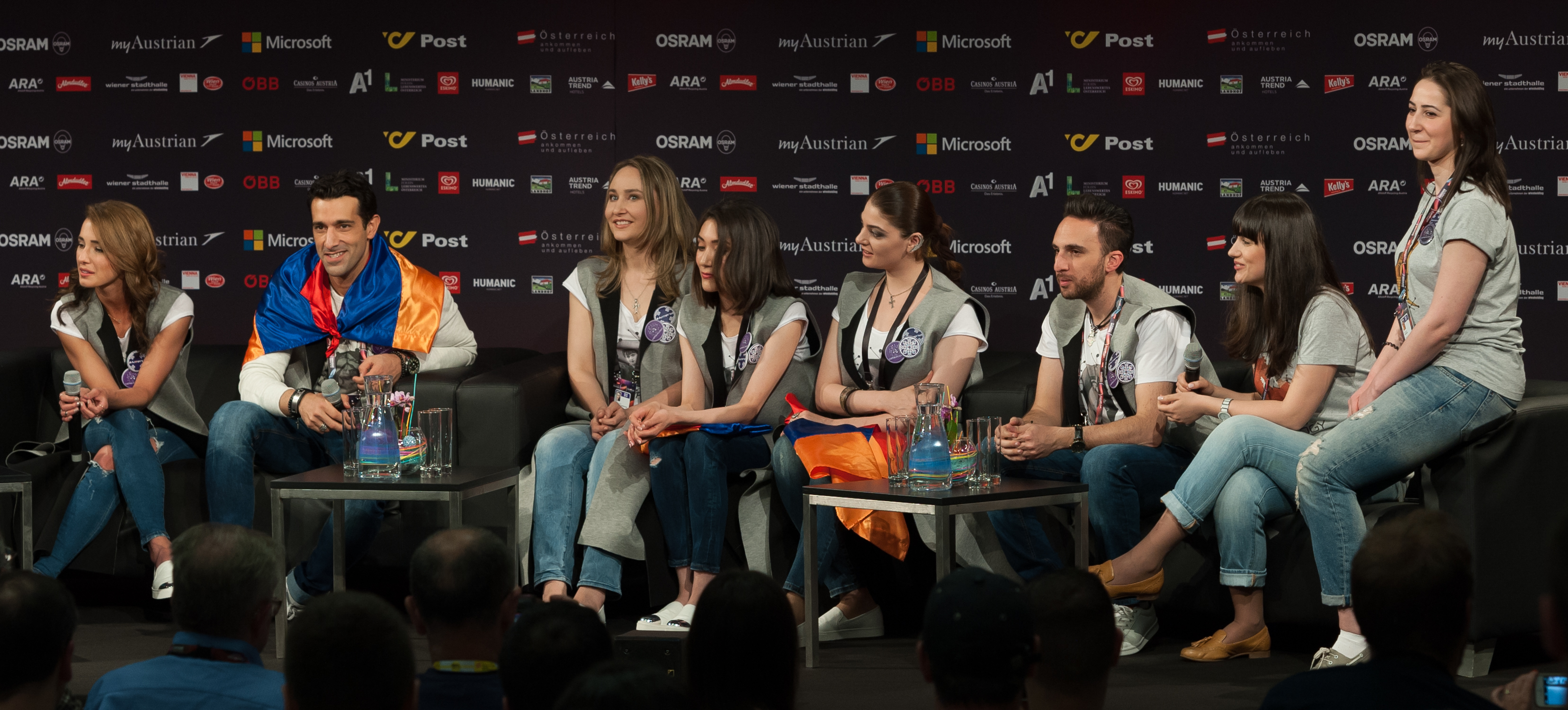 Eurovision Song Contest Vienna 2015: Genealogy